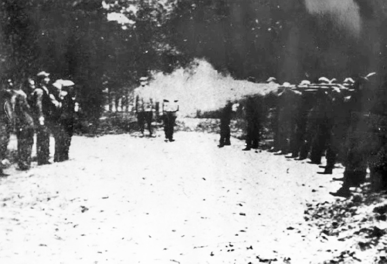 Mass execution in Barbarka forest near German-occupied Toruń. In autumn 1939 approximately 600 Poles were executed in this place by the members of paramilitary Volksdeutscher Selbstschutz. During the Second World War this photo was placed in so-called "Album of fame of Selbstschutz" (known also as "Alvensleben Album"). After the end of war this album was found and taken over by the Polish authorities.